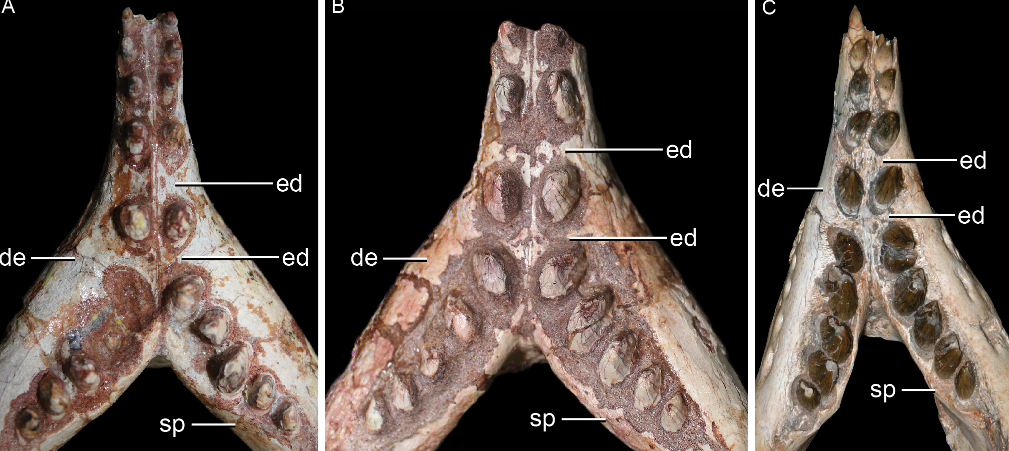 Mandibular symphysis of the three species of Caipirasuchus in dorsal view. A, Caipirasuchus paulistanus MPMA 67-0001/00; B, Caipirasuchus montealtensis MPMA 15-001/90; C, Caipirasuchus stenognathus MZSP-PV 139. Abbreviations: de, dentary; ed, edentulous spaces (diastemata sensu [11]); spl, splenial.